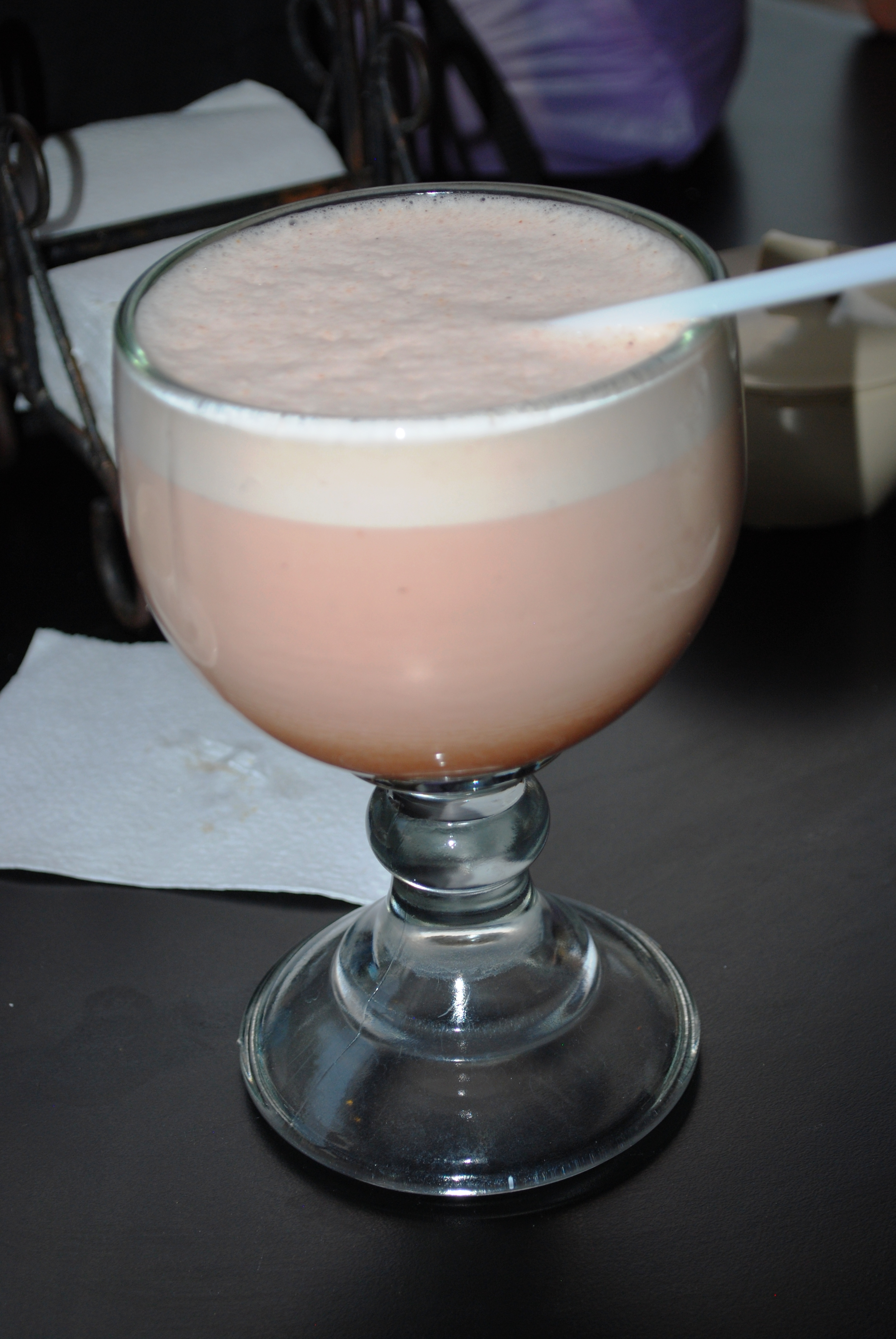 A drink made of corn, sugar, achiote and other ingredients called taxcalate served at a coffee shop in Palenque, Chiapas, Mexico